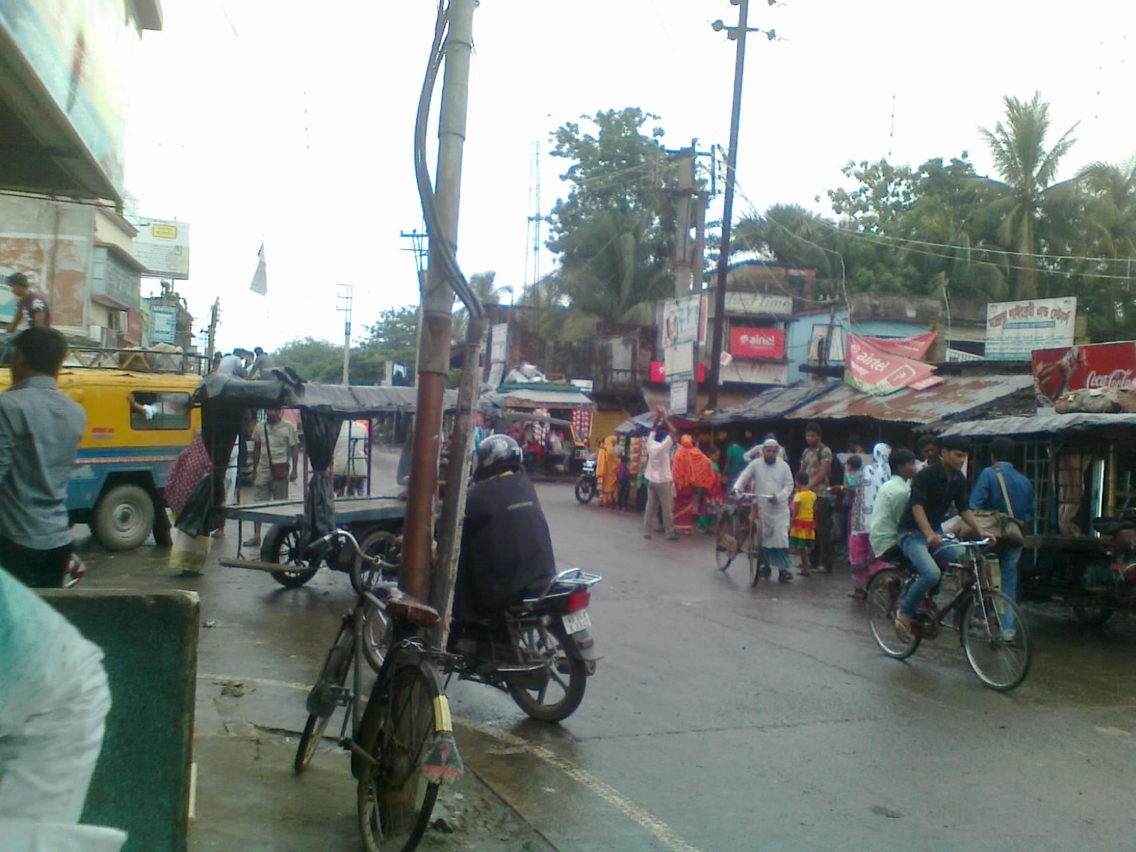 It is a picture of murarisha chowmatha